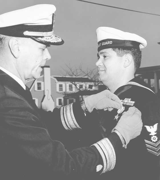 USCG Engineman First Class Robert J. Yered. Original caption: “Engineman First Class Robert J. Yered is one of the Coast Guard heroes that the new Fast Response Cutters will be named for. Yered distinguished himself and was awarded the Silver Star due to his exceptionally valorous actions at the Army Terminal in Cat Lai, Vietnam in 1968. U.S. Coast Guard photo.”